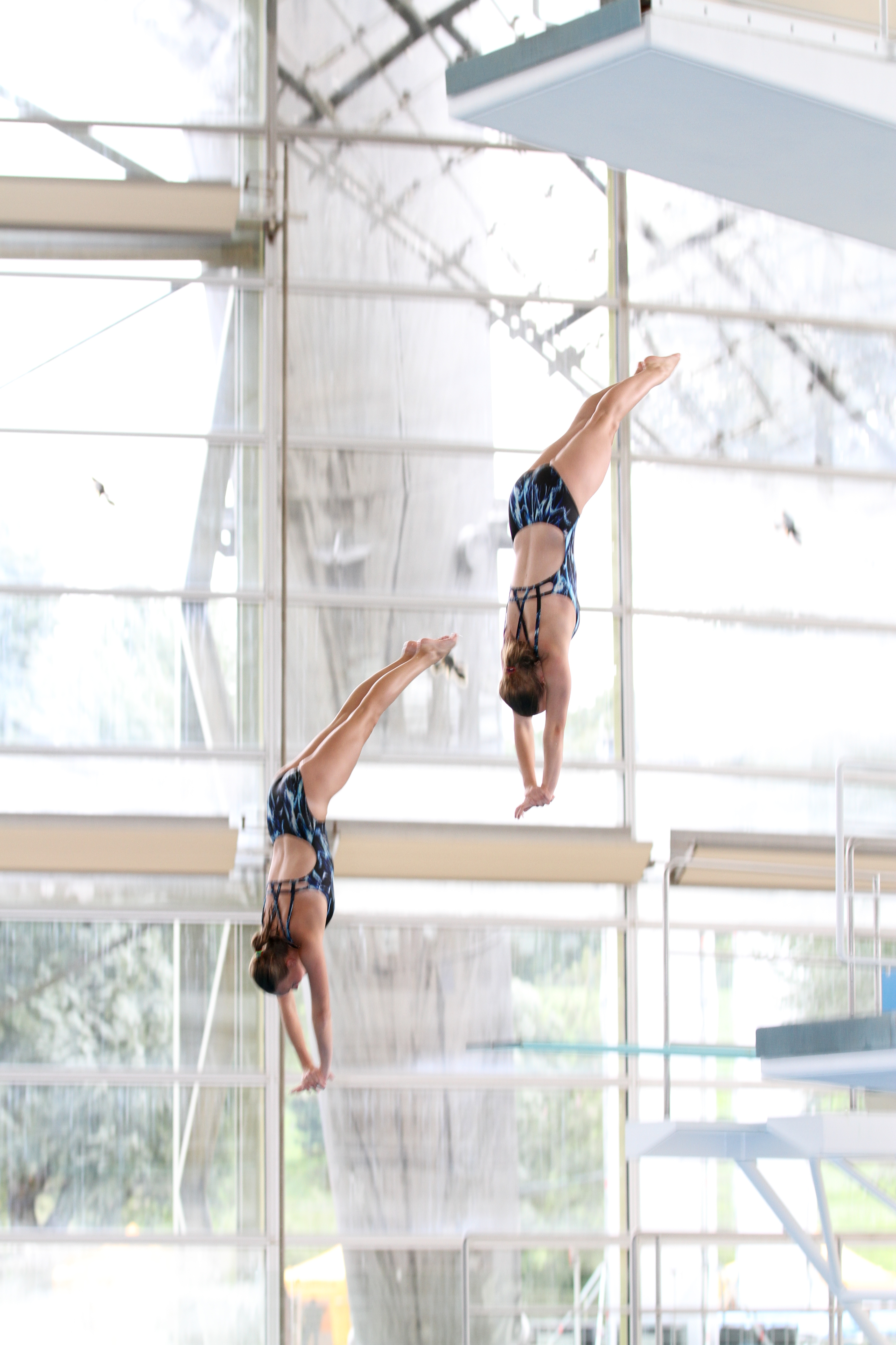 Olympic Swimm Hall Munich, High Diving presentation by members of the SV Stadtwerke München High Diving Team